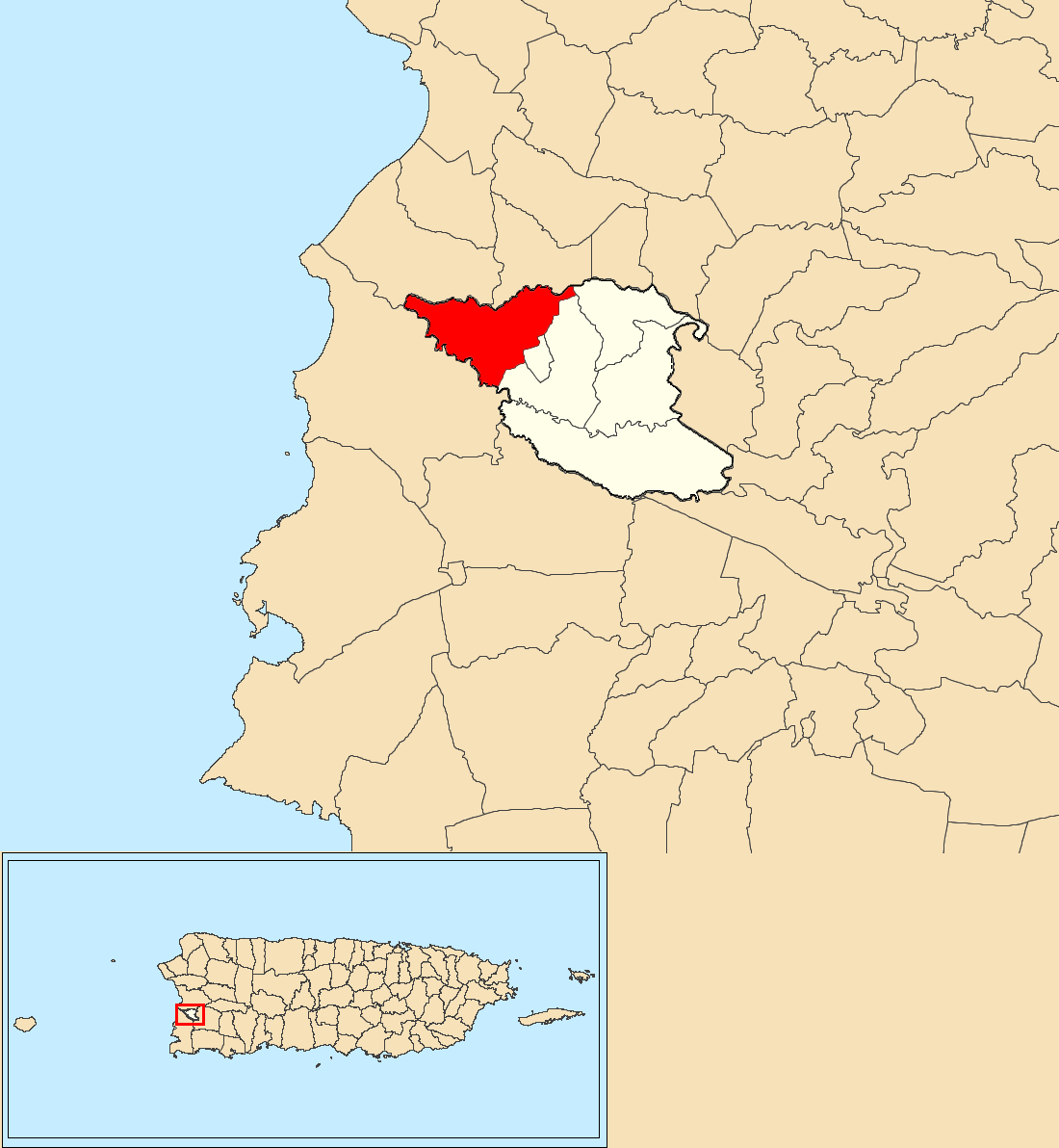 Guanajibo, Hormigueros, Puerto Rico locator map